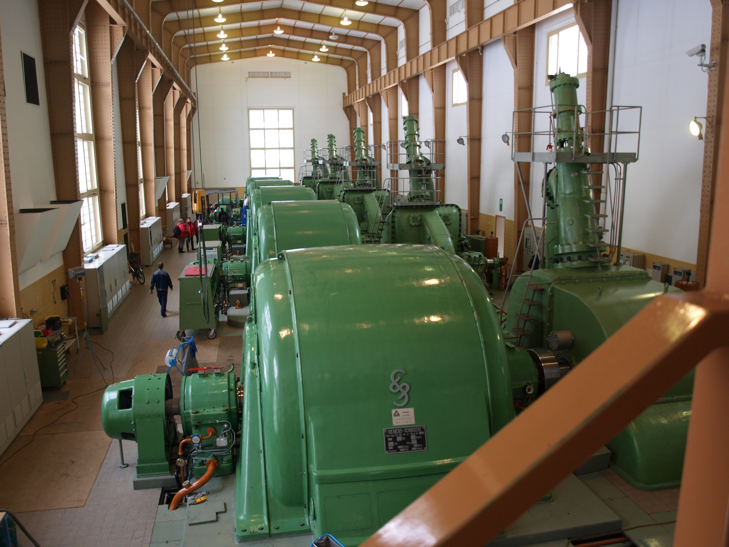 Vermuntwerk - machine hall with 5 generators and 5 pressure turbines